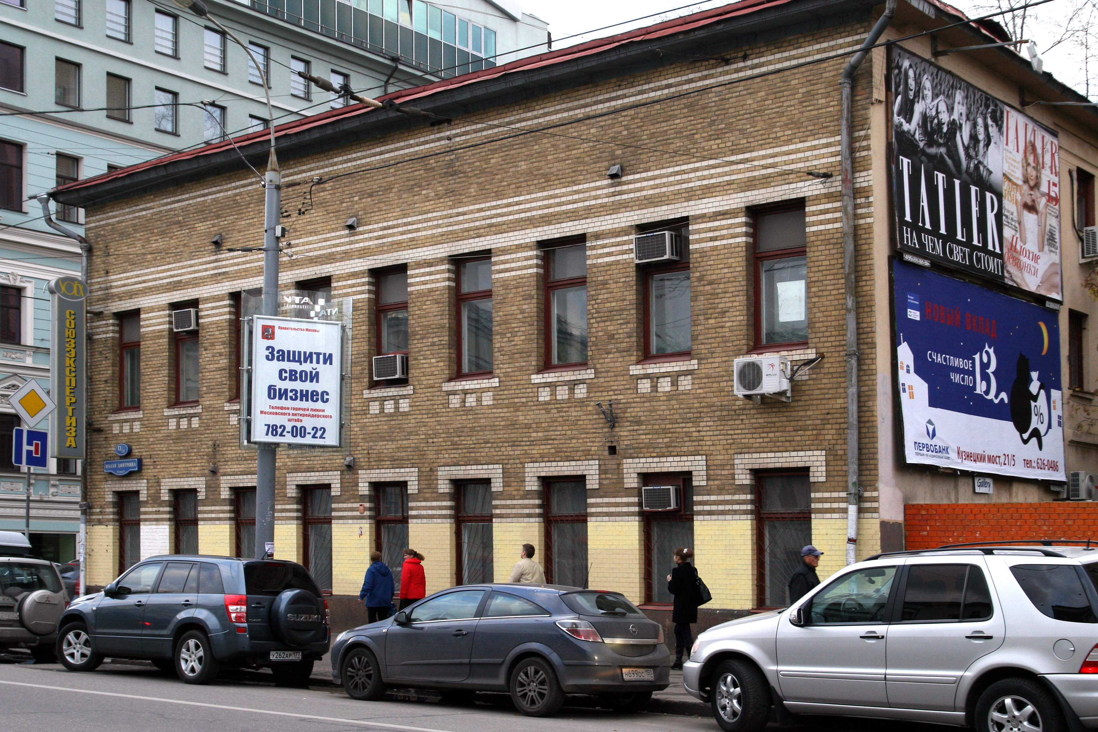 Moscow, Malaya Dmitrovka Street 13 (corner of Degtyarny Lane).